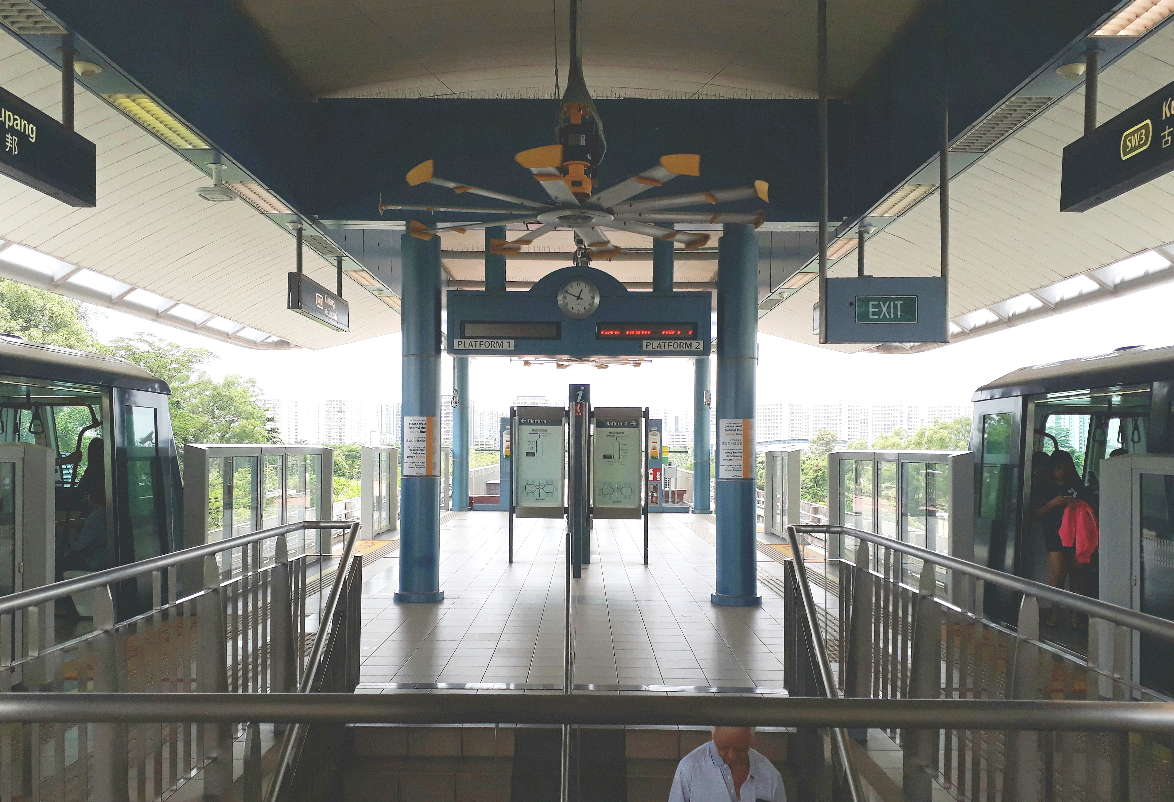 Kupang LRT station